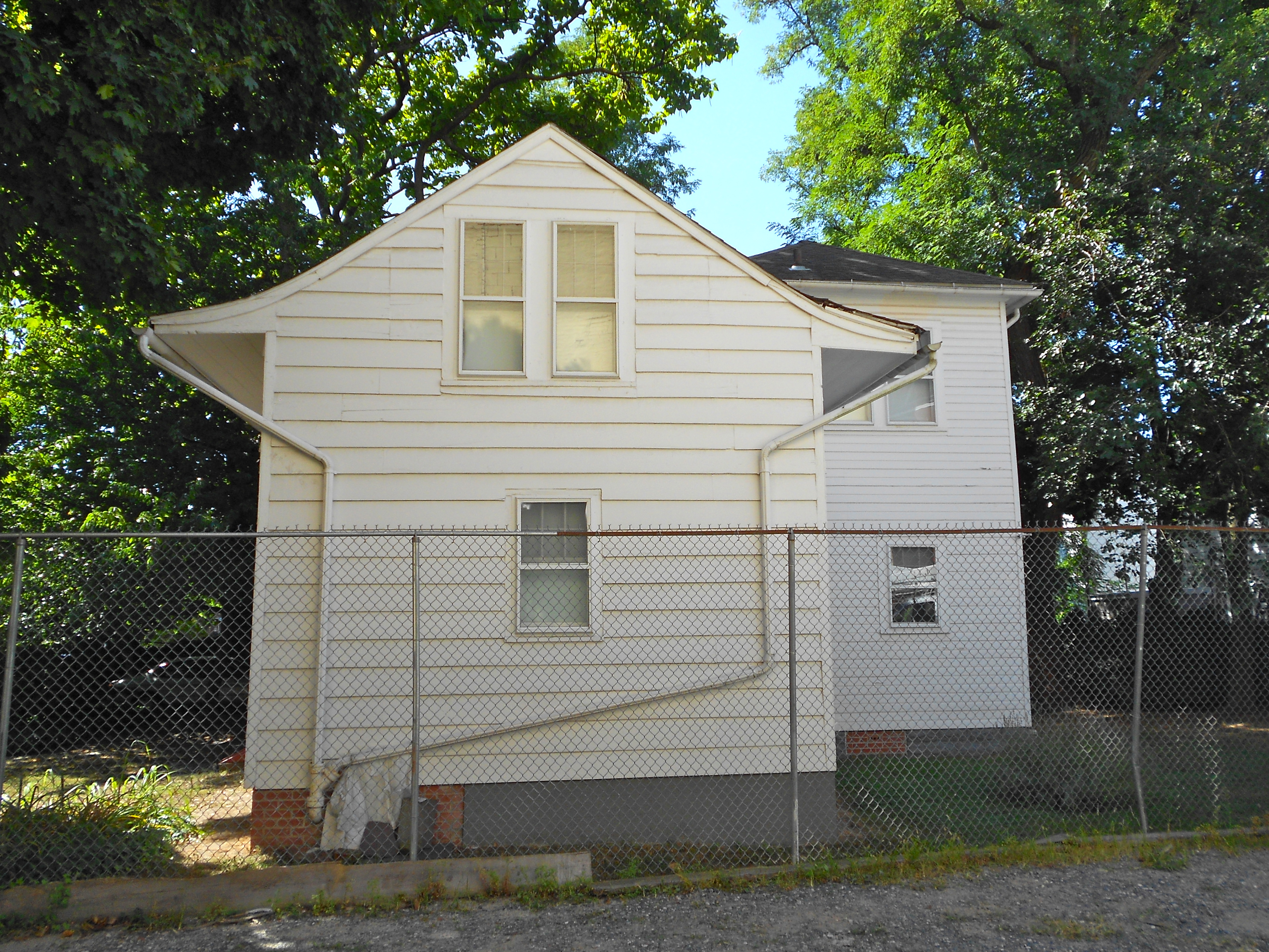 McDonald Avenue side of Hubbard House Listed on the NRHP on June 2, 2000 . At 2138 McDonald Ave., Brooklyn, New York.